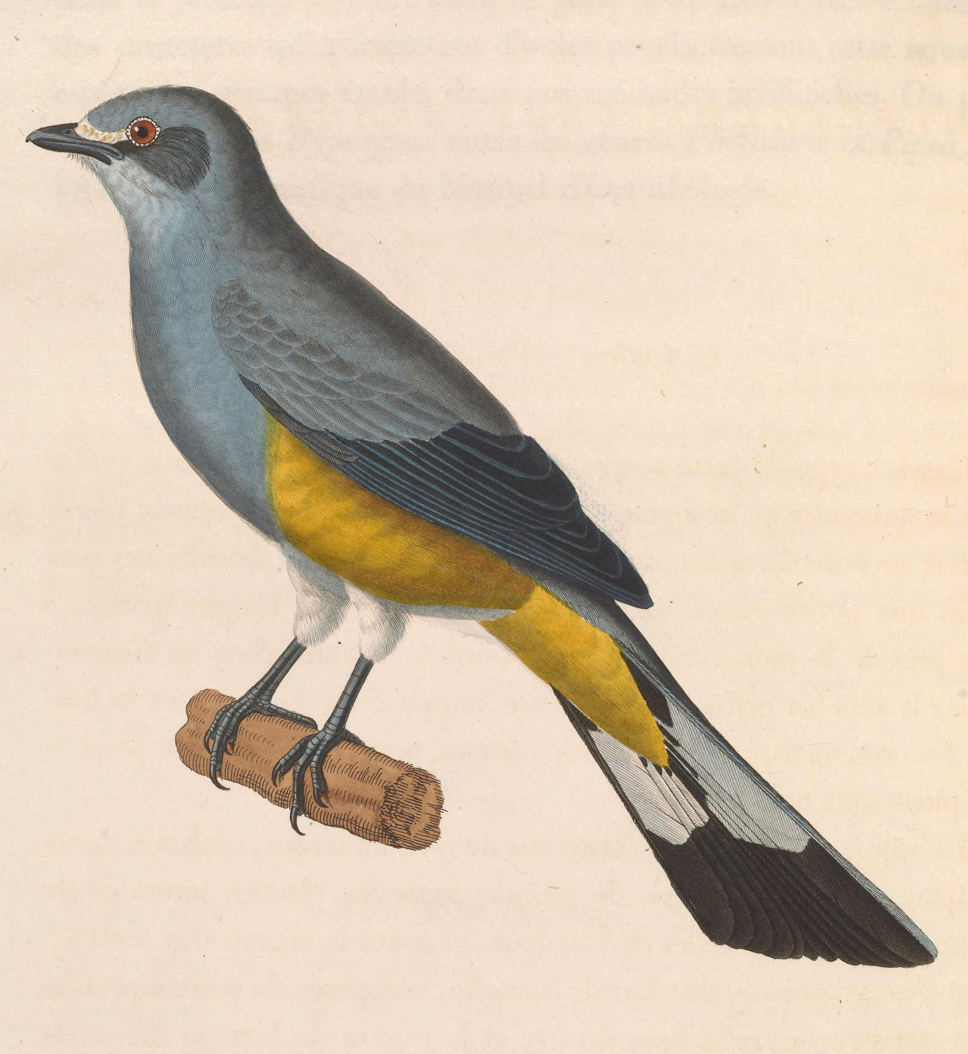 « Hypothymis chrysorhoea » = Ptilogonys cinereus cinereus (Subspecies of Grey Silky-flycatcher) - adult